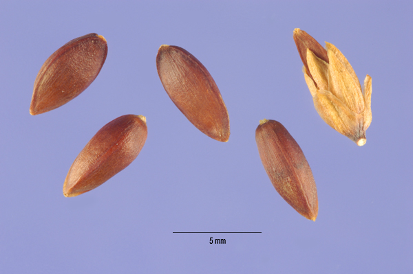 Seed of Ephedra viridis collected by T. L. Breene from Nevada, United States